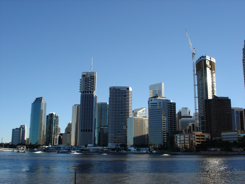 Brisbane CBD from the east, looking from the river.